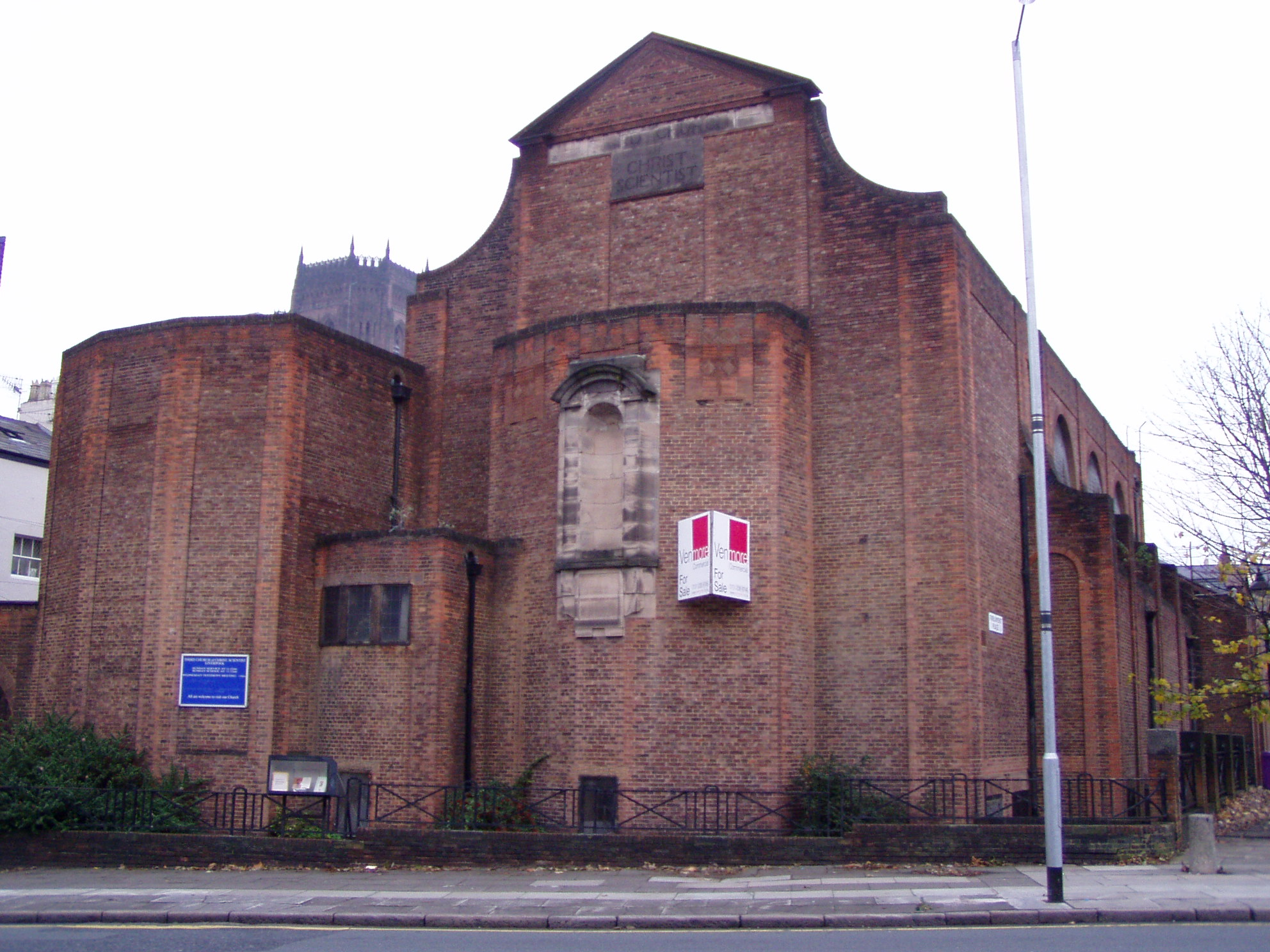 Third Church of Christ, Scientist, Upper Parliament STreet